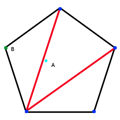 A triangulation of a reguliar pentagon, showing that set of points do not have a Pitteway triangulation, because the cyan point (A) is closer to the green point (B) than to any blue point.